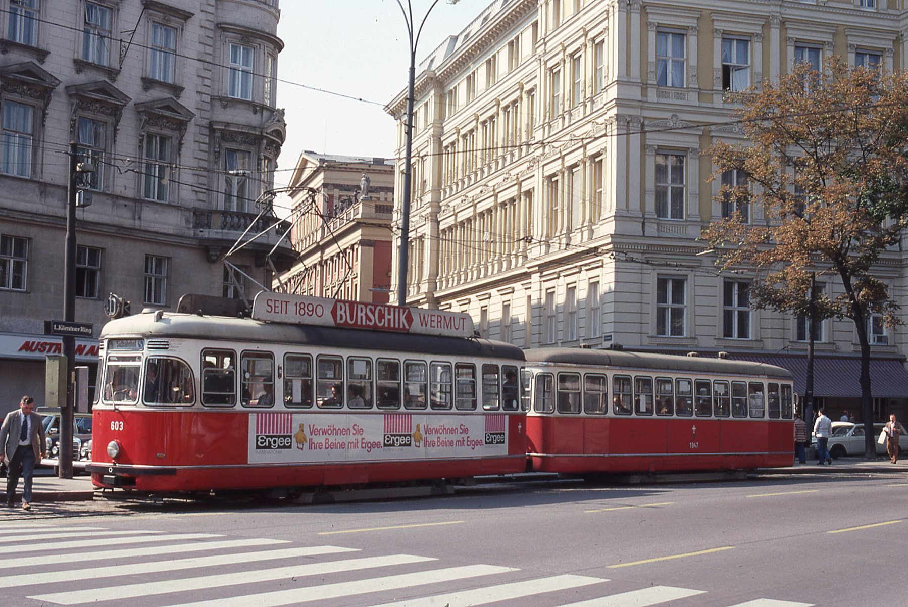 Tram type L, car No. 603 on line D on the Kärntner Ring near Schwarzenbergplatz.